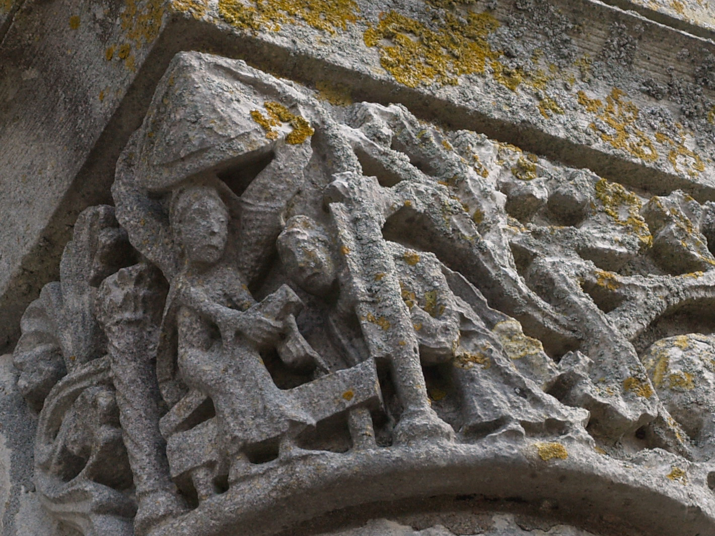 Sainte-Marie-des-Dames (Abbaye-aux-Dames), Saintes (Charente-Maritime, France) - Details of a capital in the church tower: the Holy women at the grave.